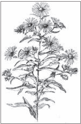 ಆಸ್ಟರ್